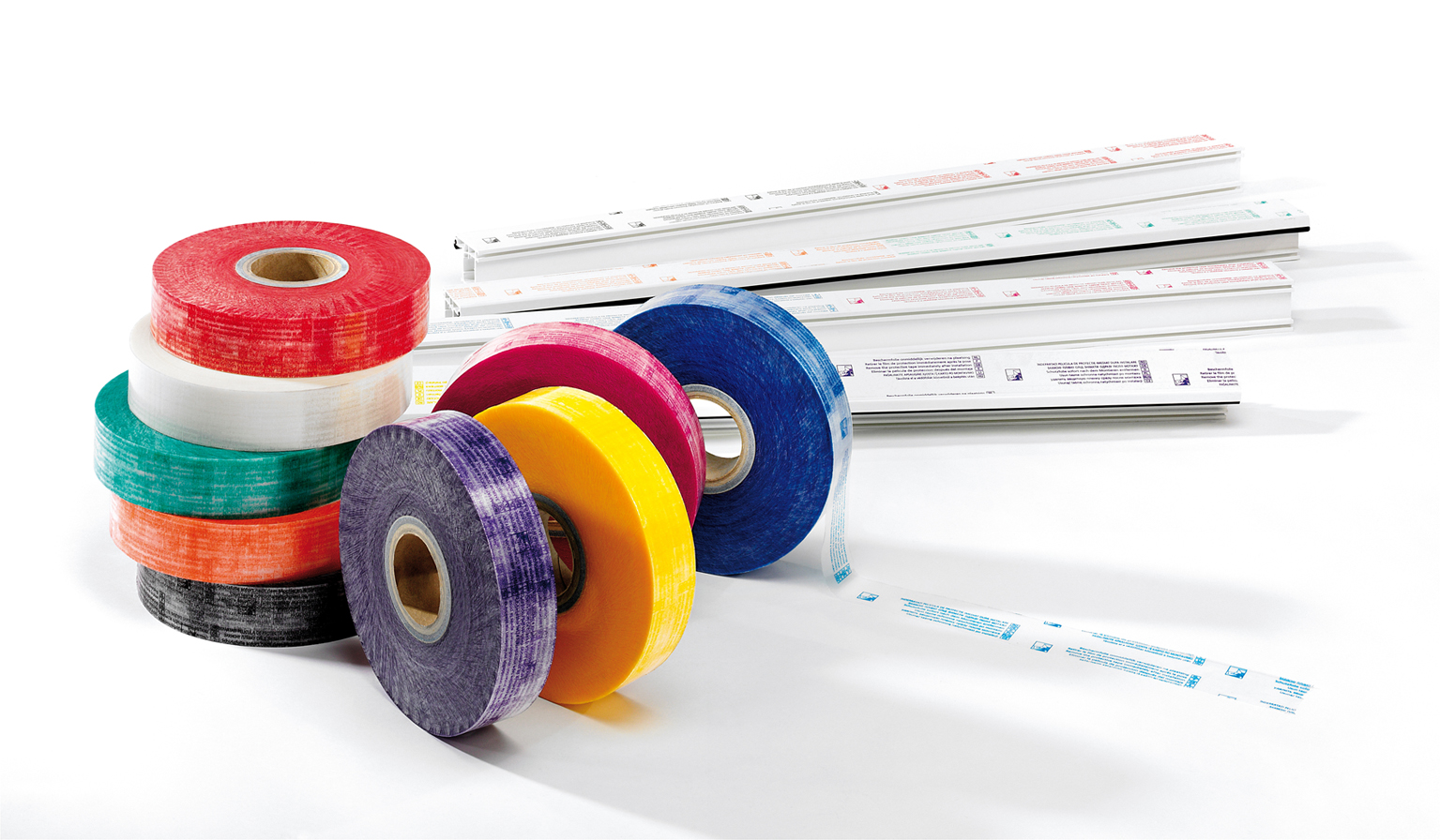 Novacel 4333, clear transparent film, 50µm, for the protection of plastic profiles. 6-months outdoor resistance.